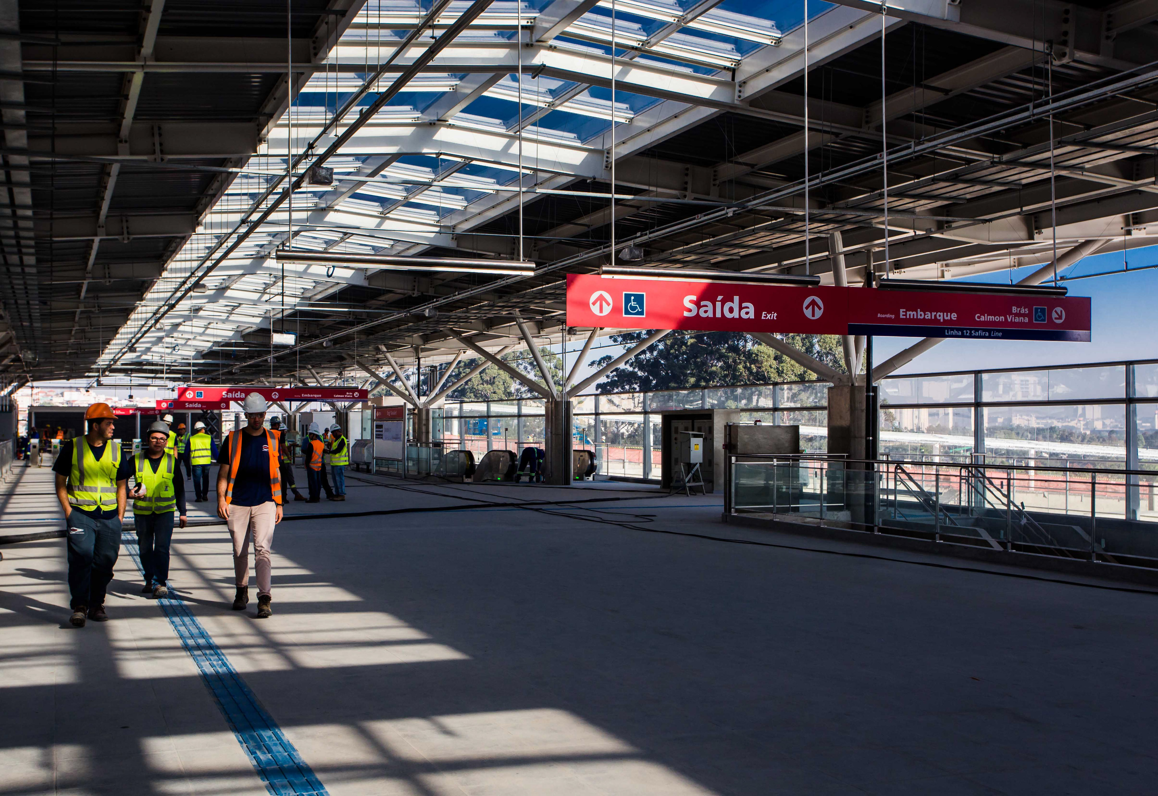 O Governador do Estado de São Paulo Geraldo Alckmin, participou de Visita Técnica às Obras da Estação Engenheiro Goulart da Linha 13-Jade, Lote 1. Local: São Paulo/SP. Data: 19/06/2017. Foto: Alexandre Carvalho/A2img